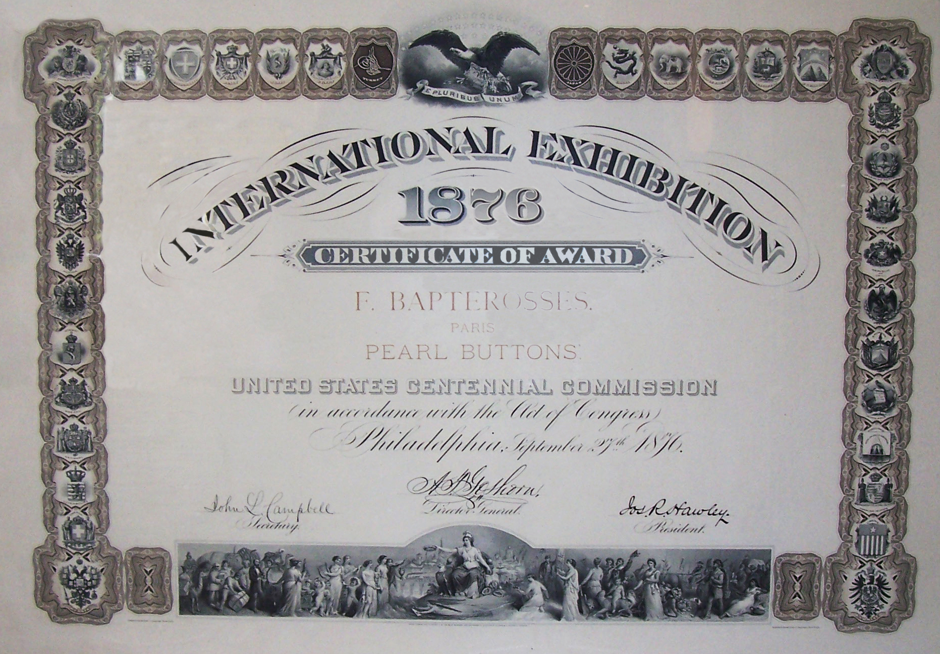 Certificate of award for the centennial exhibition in Philadelphia (PA) 1876. Jean-Félix Bapterosses